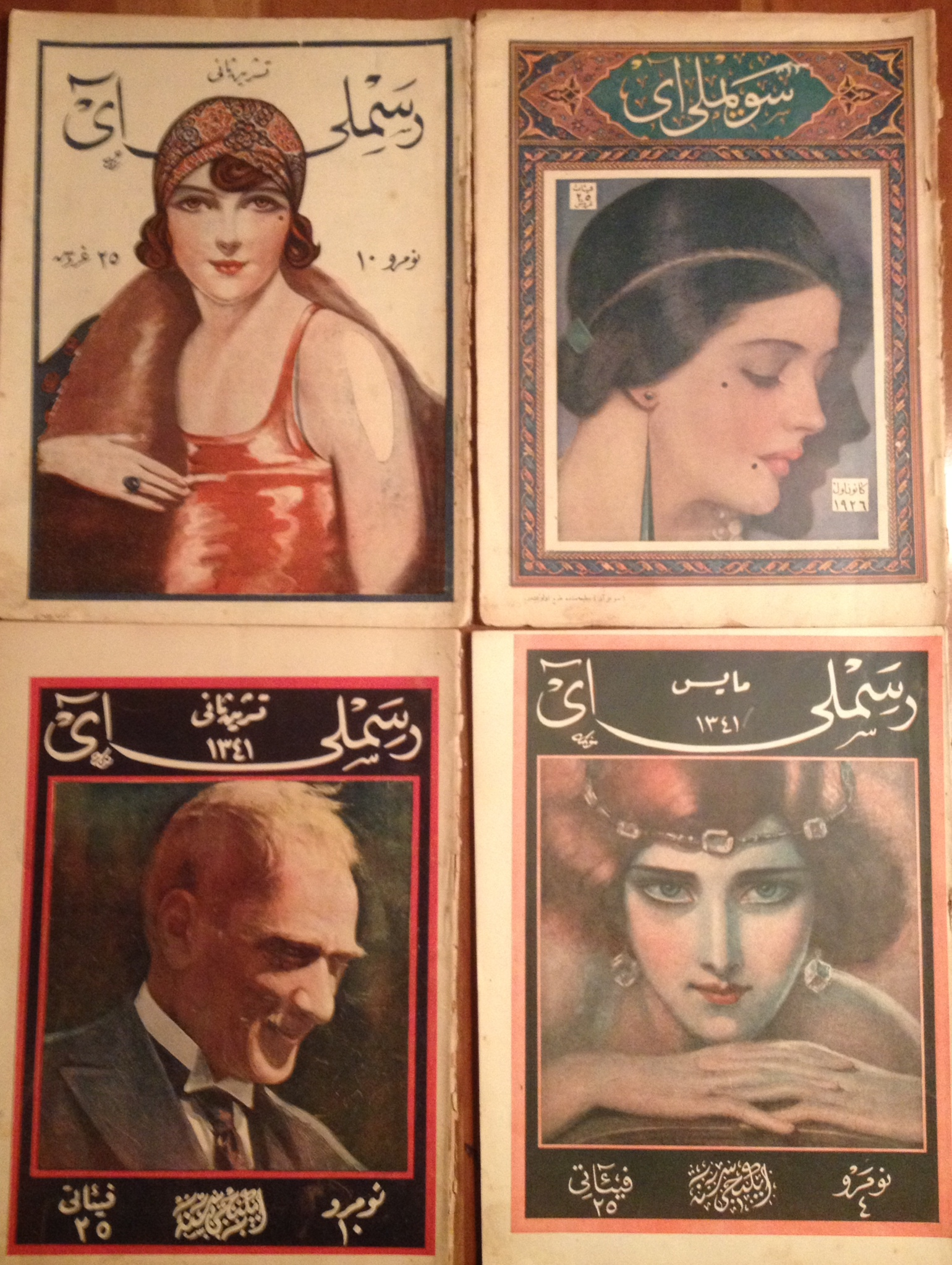 Resimli covers